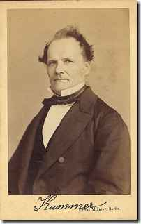 German mathematician Ernst Kummer (1810–1893)